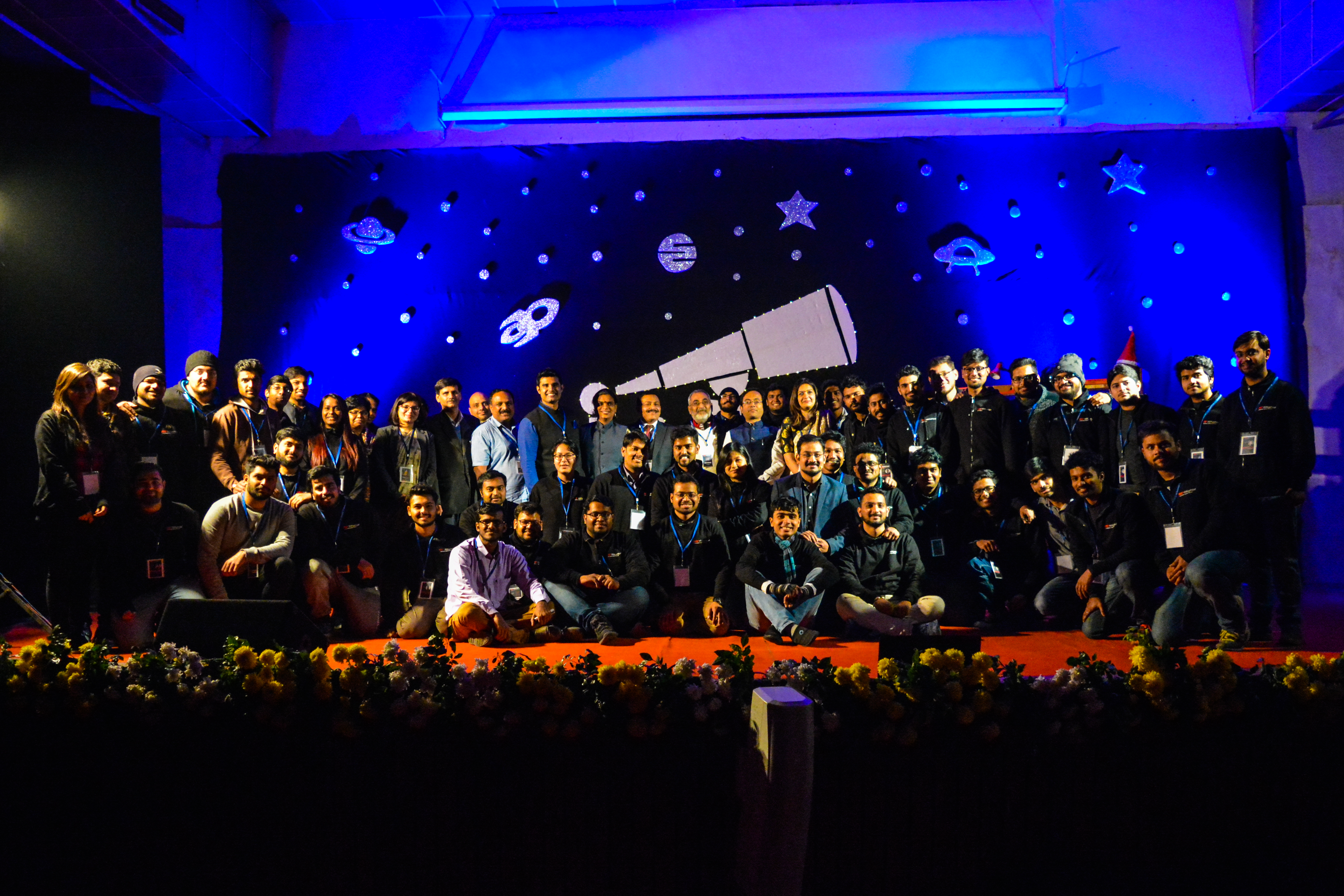 The Organizing Team and Faculty Members with the Speakers of TEDxIIMKashipur 2018.